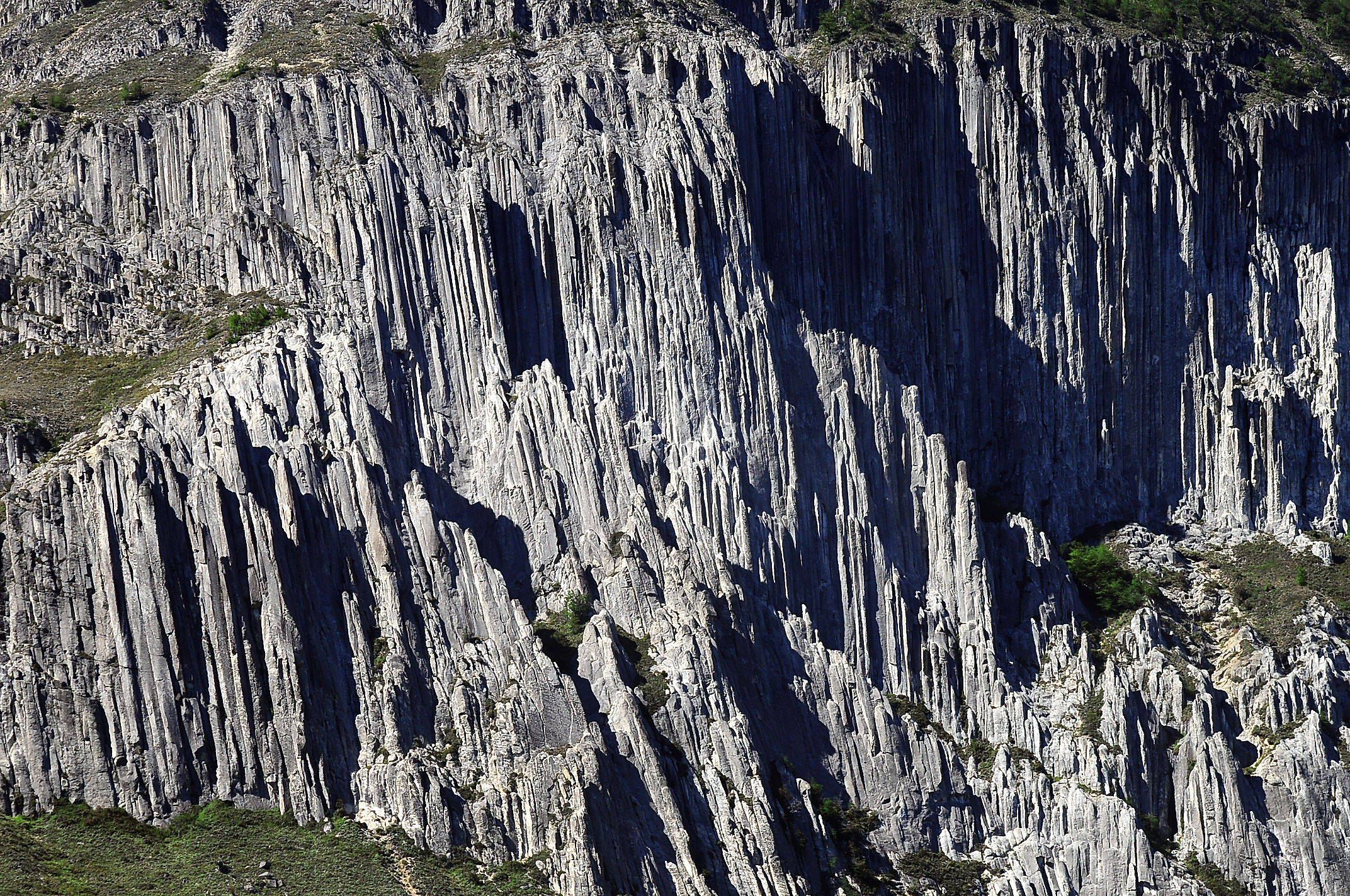 Columns of adakite in the hillside of Mount MacKay. Coyhaique, Aysén, Chile